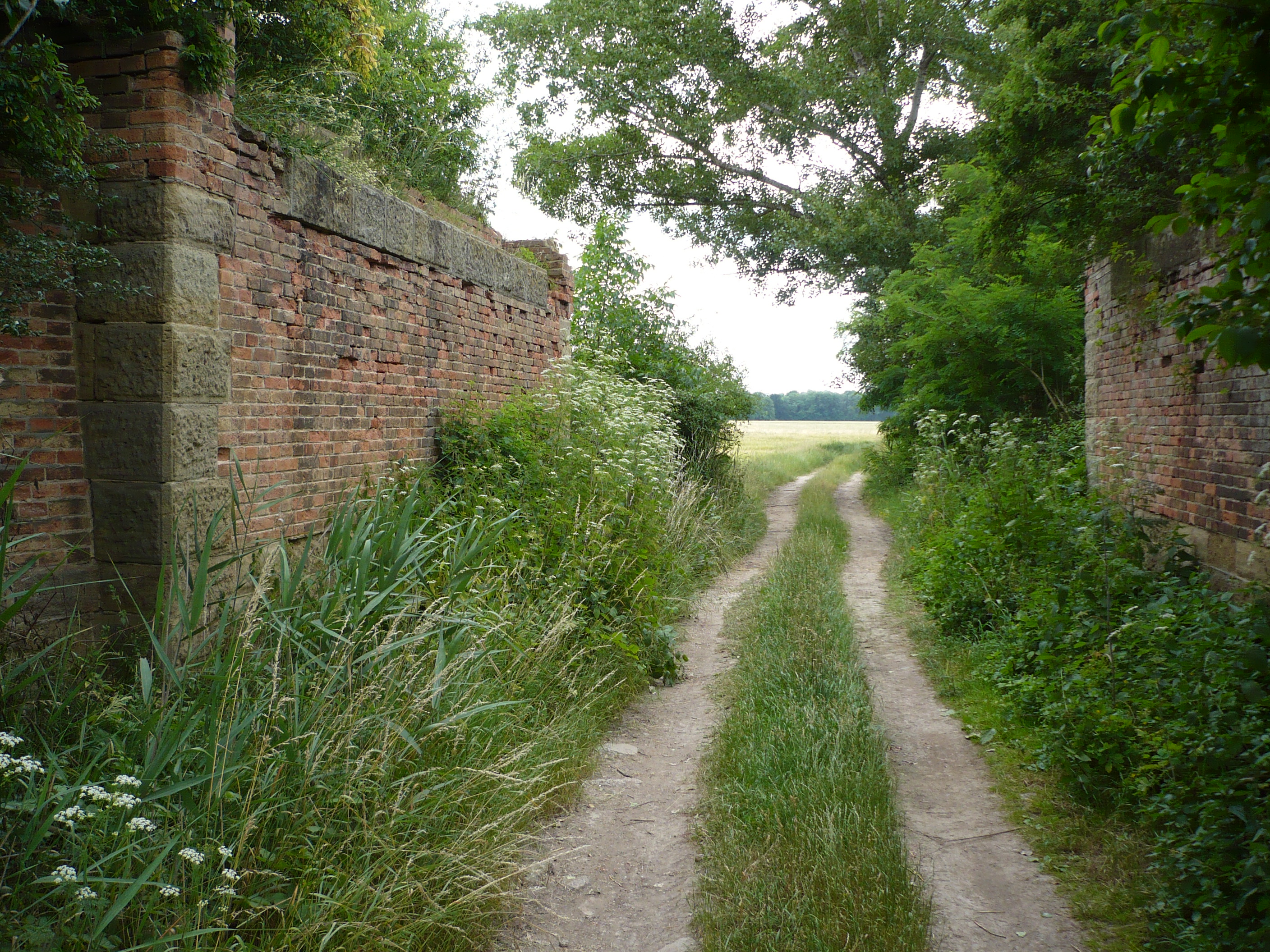 Laaer Ostbahn, Laa and der Thaya, Former bridge located between Ruhhofstrasse and Thayamuehlbach